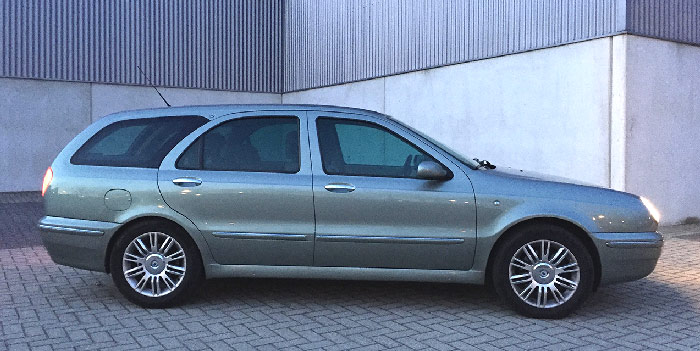 Lancia Lybra (2003-2005 Emblema Version)